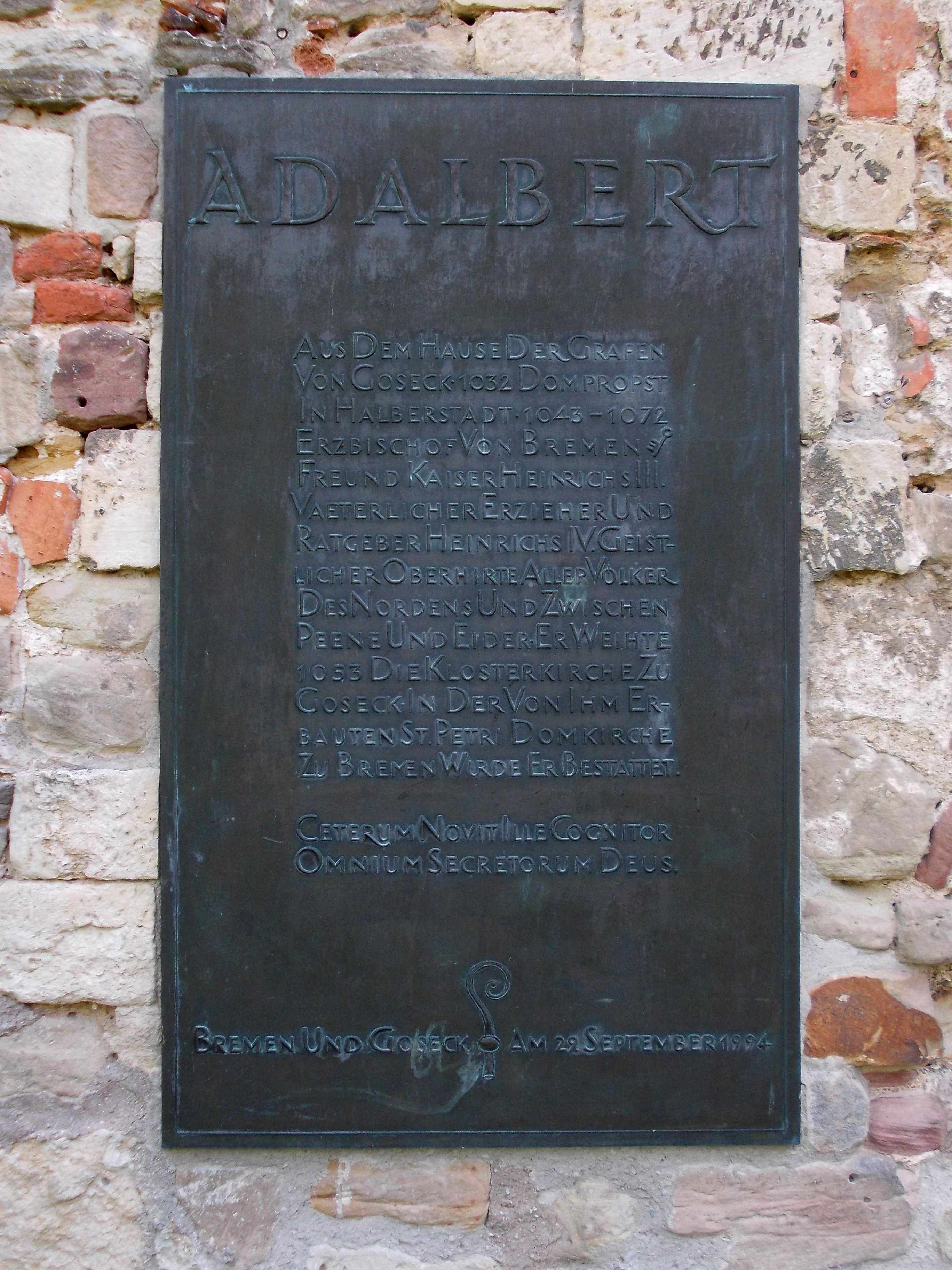 Goseck Castle (district: Burgenlandkreis, Saxony-Anhalt), memorial plaque to Adalbert of Bremen